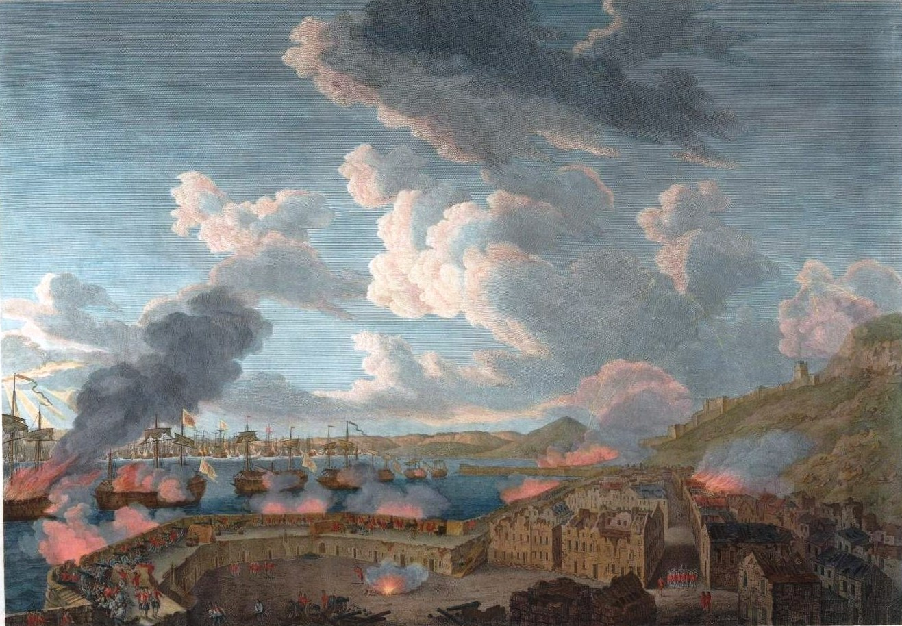 Siege of Gibralatar. 1782. Brave and gallant defence of Gibraltar, against the united force of Spain, and France, in the afternoon of the 13th Sepr. 1782. View showing soldiers and artillery in bastions at left foreground, ruined and burning buildings at right, fleet of enemy ships offshore at left.